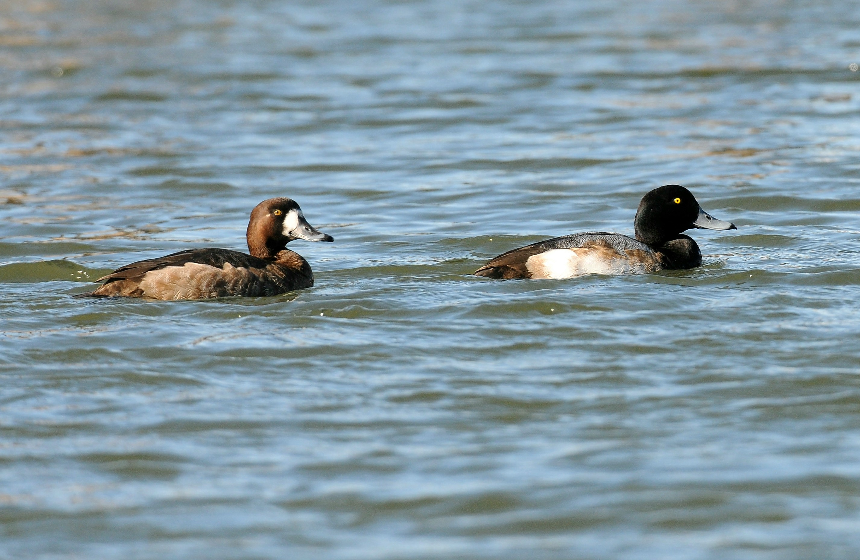 A pair of Greater Scaup swimming in New Jersey, USA. Photographed in January. The male (right) is probably a first year wintering male, which go on to develop whiter sides by the spring.